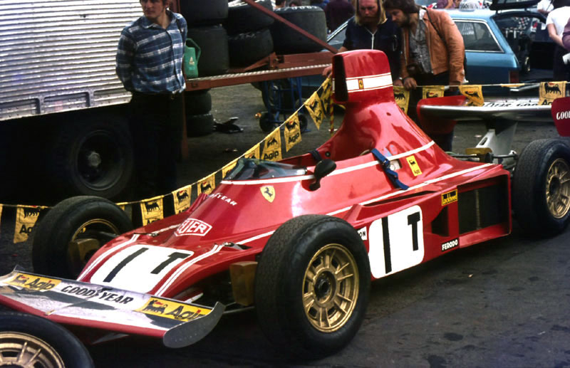 Formula One in the early 1970s